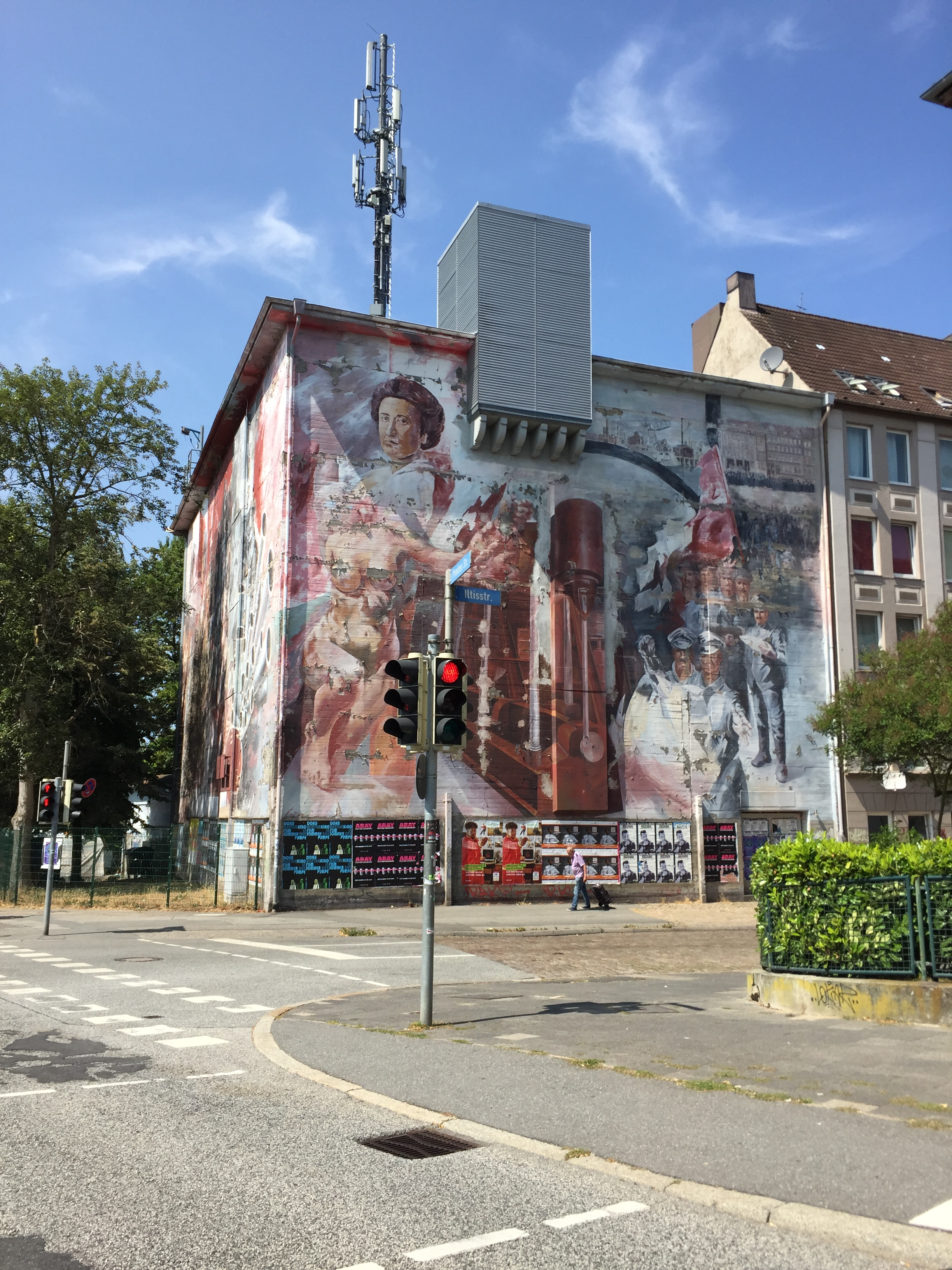 Iltisbunker in Kiel-Gaarden